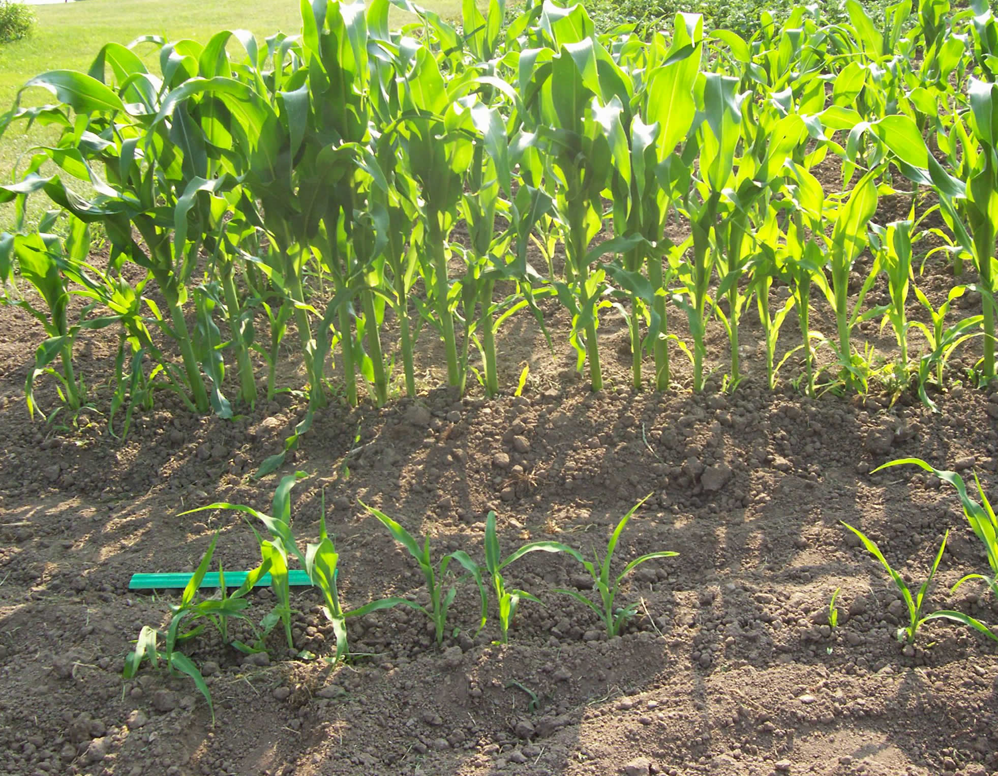 Young sweetcorn stalks. A green one foot (30.48 cm) ruler is included for scale. I took this image myself on July 7, 2006. The same two row of corn can be found 41 days later at :Image:MatureSweetCorn.jpg.